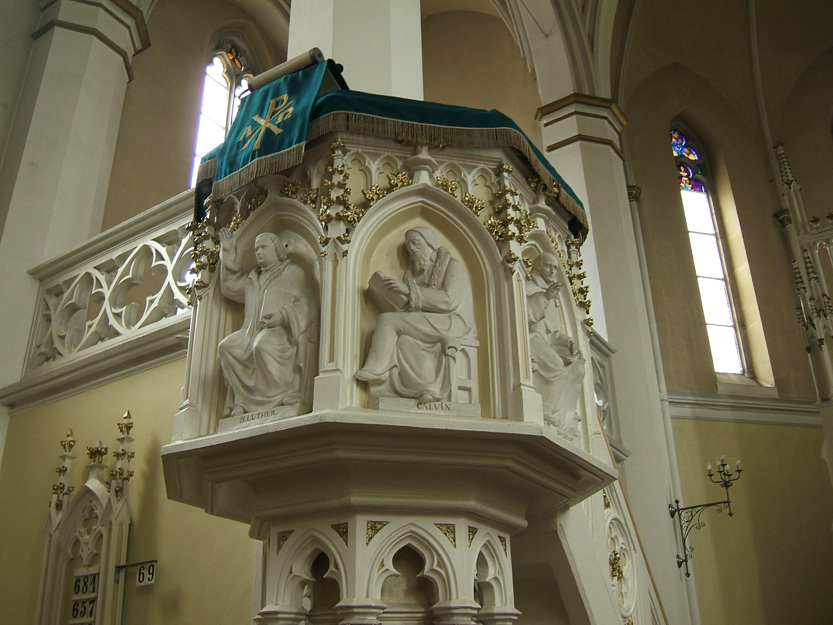 Pulpit of protestant church in Mikołów.